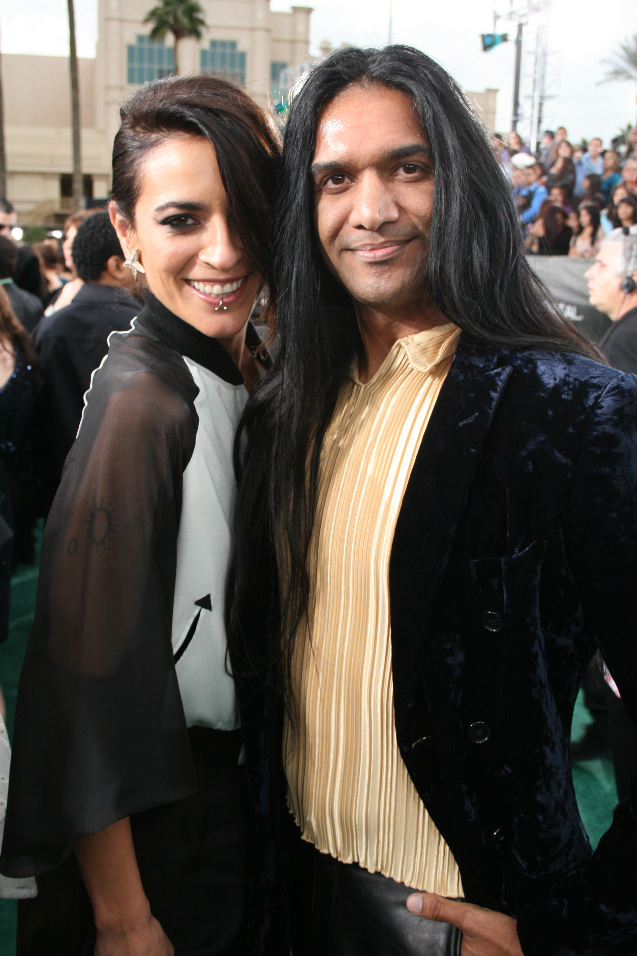 Latin pop stars Bebe and Anand Bhatt at the 2012 Latin Grammys